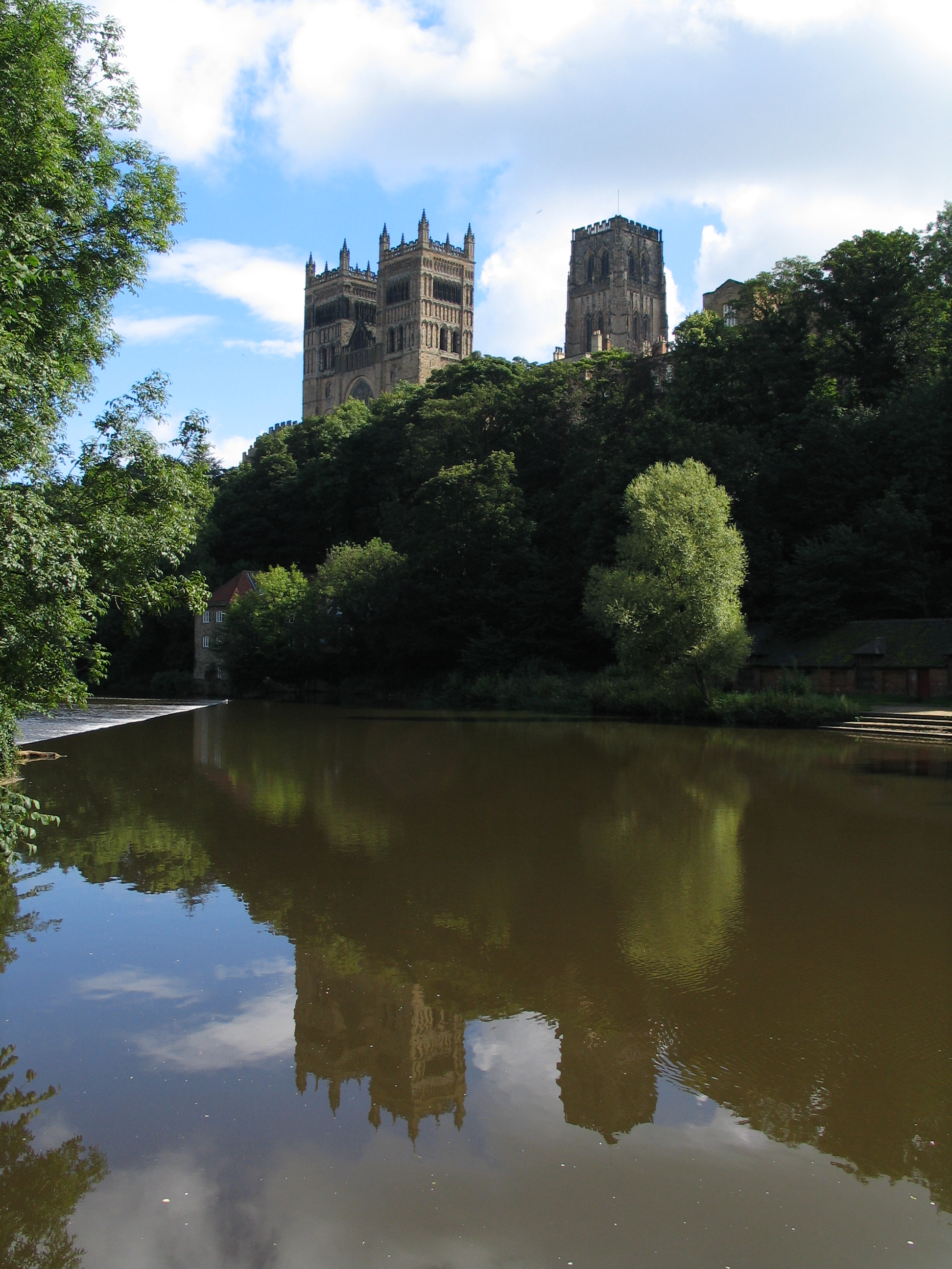 Durham Cathedral from the banks of the River Wear.